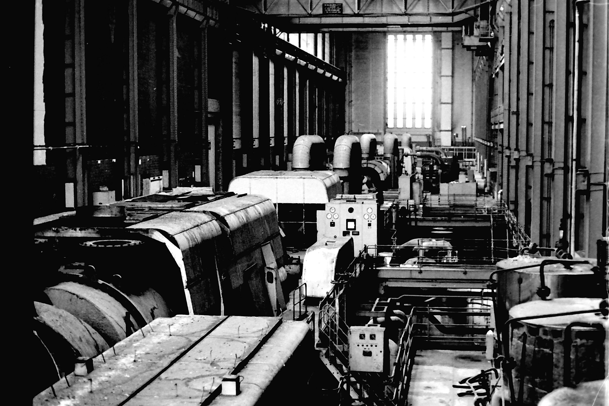 In 1991 Sarah North and Antony Gormley visited Bankside Power Station as part of a student project for a gallery.